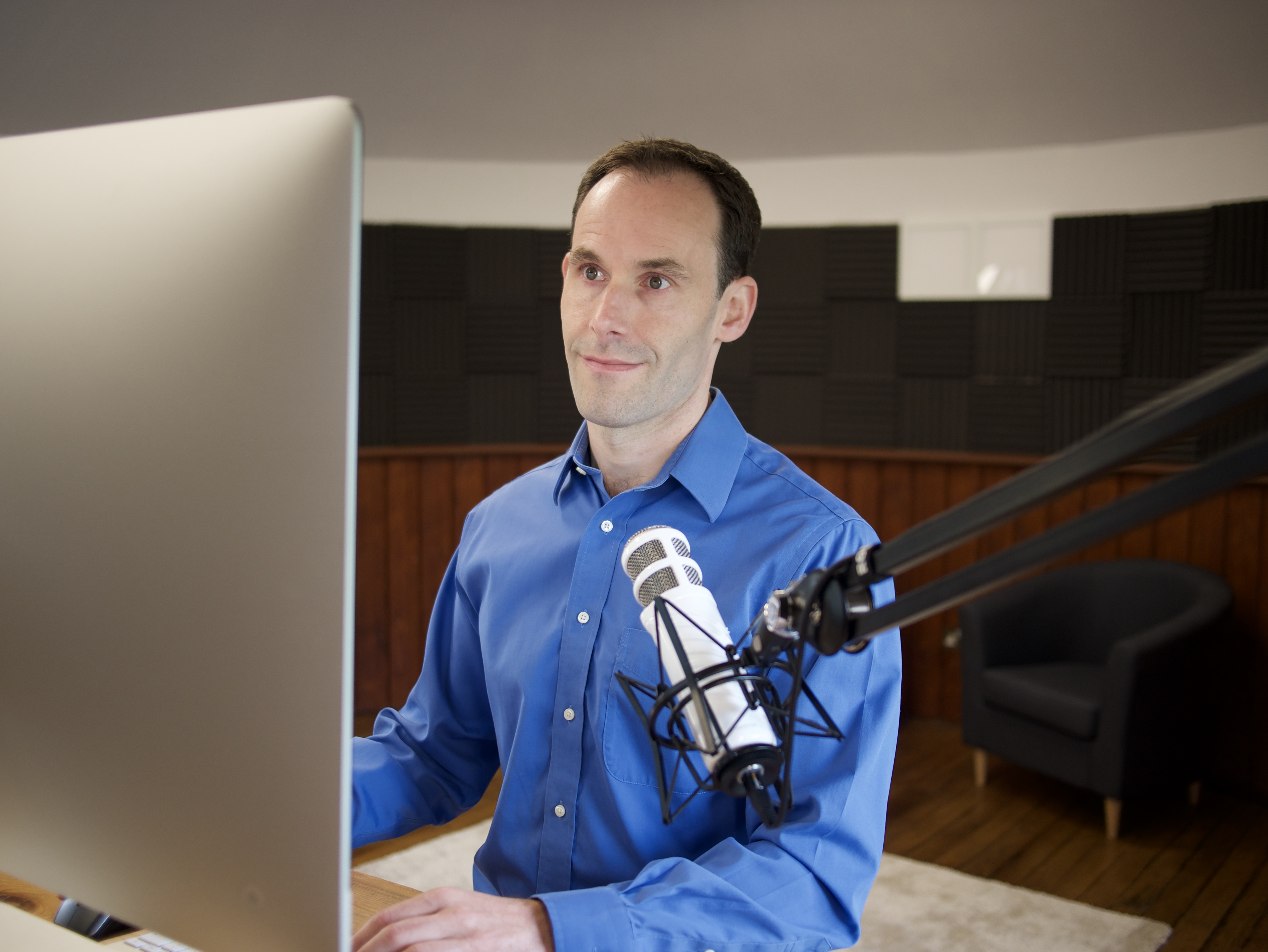 Ben Tristem working at his home recording video game development tutorials.